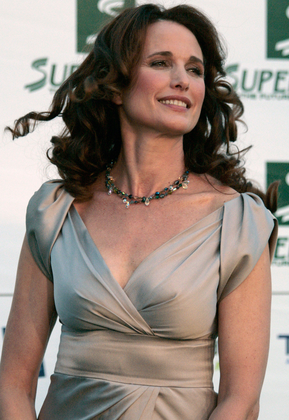 Andie MacDowell at the "green carpet" for the Save the World Awards 2009 (Zwentendorf Nuclear Power Plant, Lower Austria).